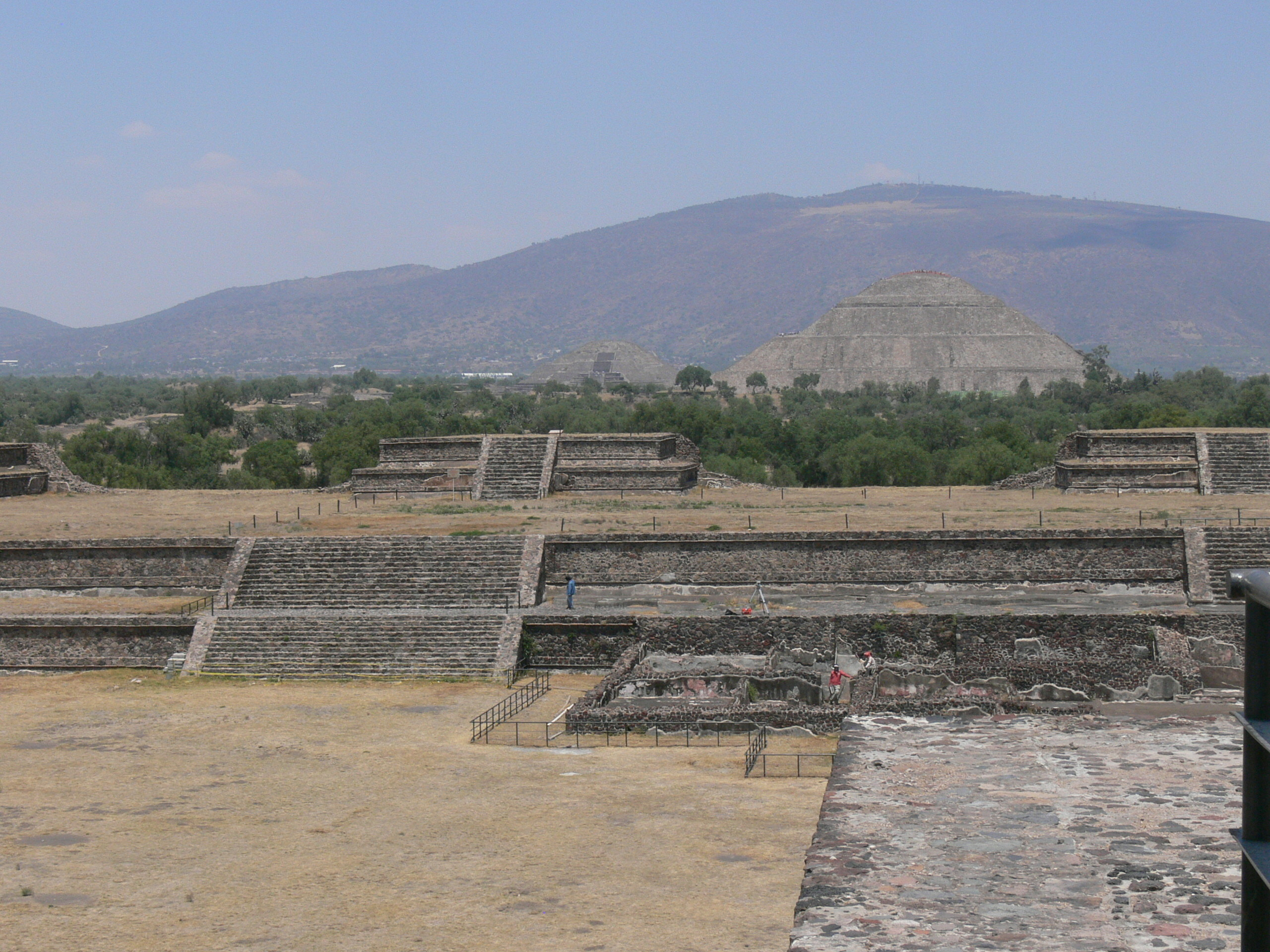 La Ciudadela, Teotihuacán. View to the Pyramid of the Sun